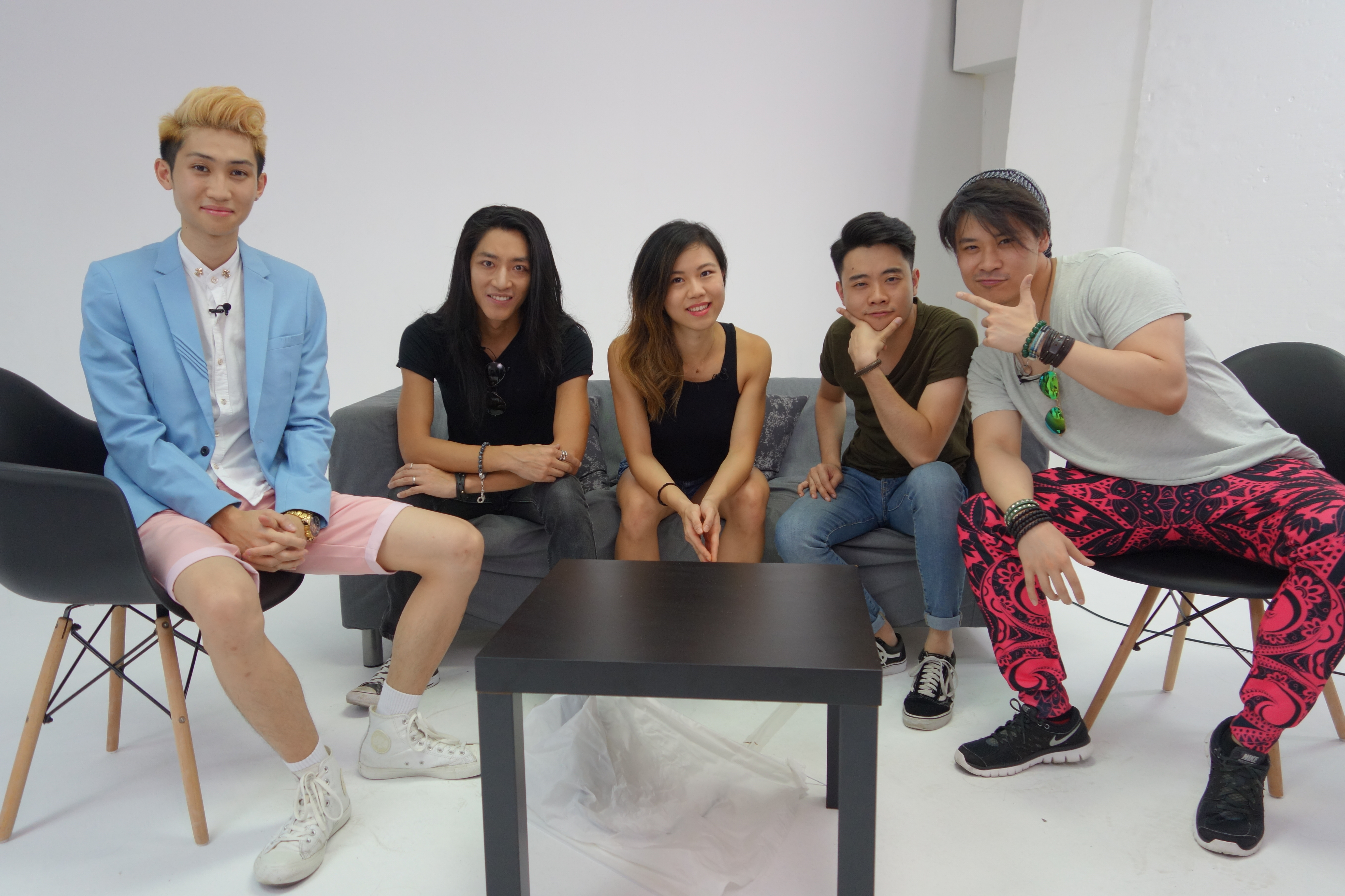 電視音樂節目